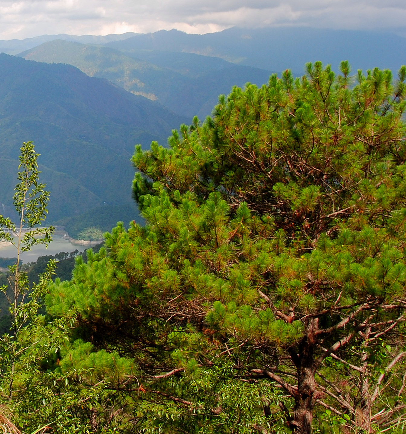 Pinus kesiya tree, above Binga Dam, Benguet, Luzon, Philippines; approx. 16°24'N 120°43'E.